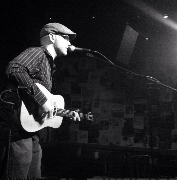 David Porteous live at Free Times Café in Toronto, June 2015